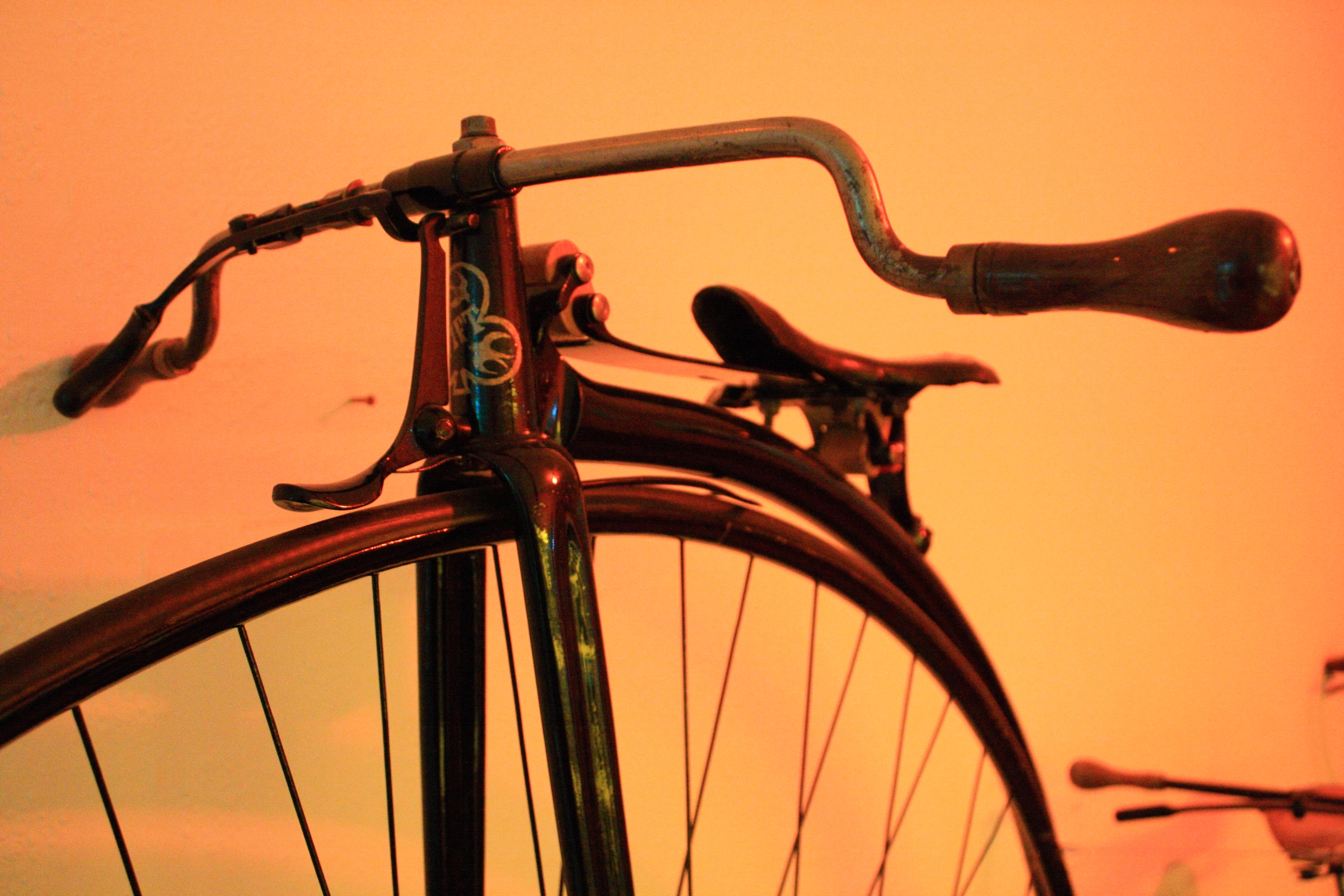 "This machine has a 56" front wheel and was made at the Humber factory at Beeston, near Nottingham." Coventry Transport Museum, UK. 2009